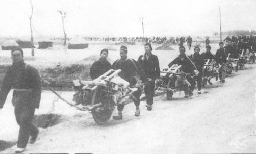 Peasants carting supply for communists. 人民群眾支援戰爭前線